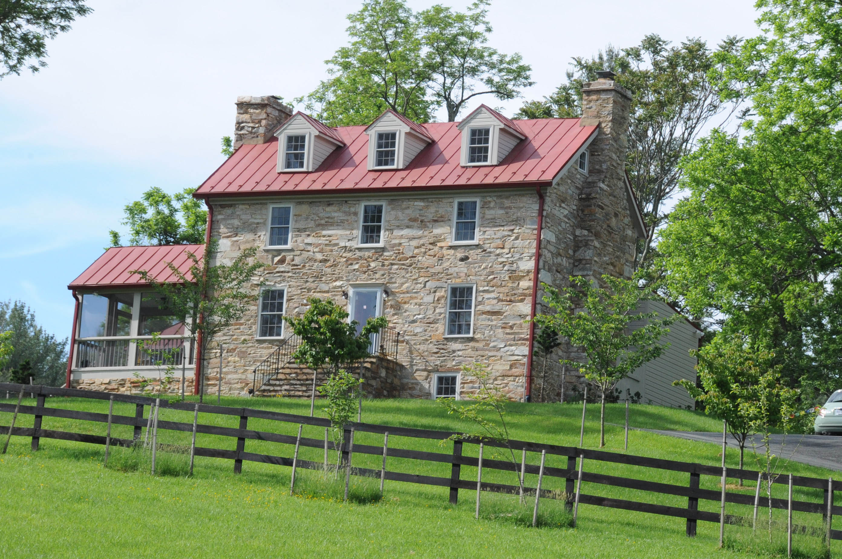 CONTRIBUTING STONE HOUSE AT 4607 HOPEWELL ROAD, CIRCA 1810-1840